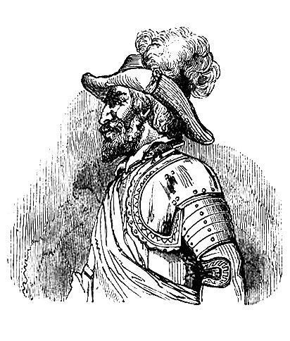 Engraving of Juan Ponce de Leon